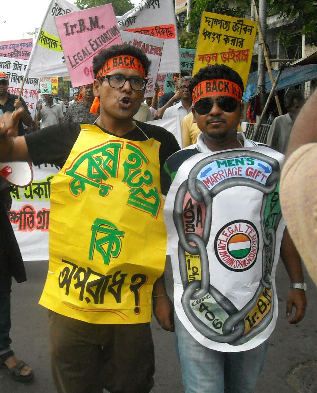 Men's Right movement in Bengal, It shows a man asking whether it is a sin to be born a Man?